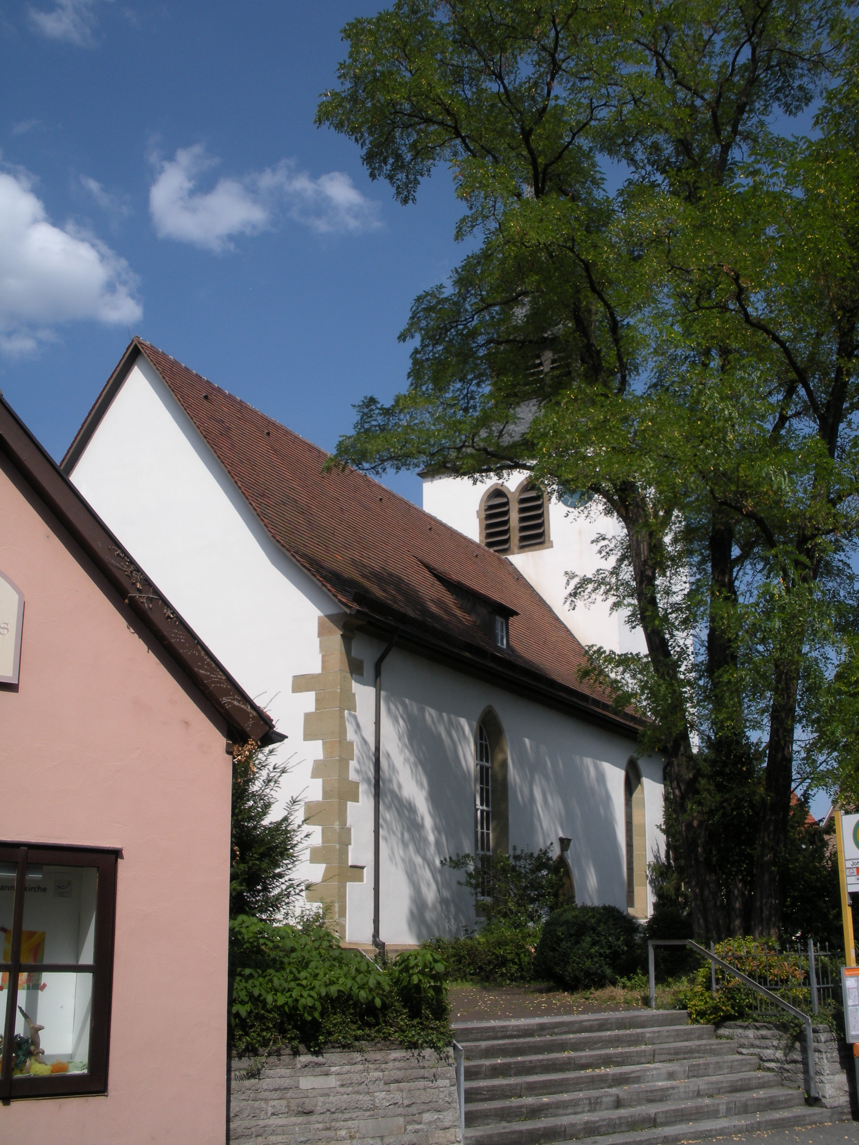 Protestant Church of St. John (Johanneskirche) in Stuttgart-Zuffenhausen